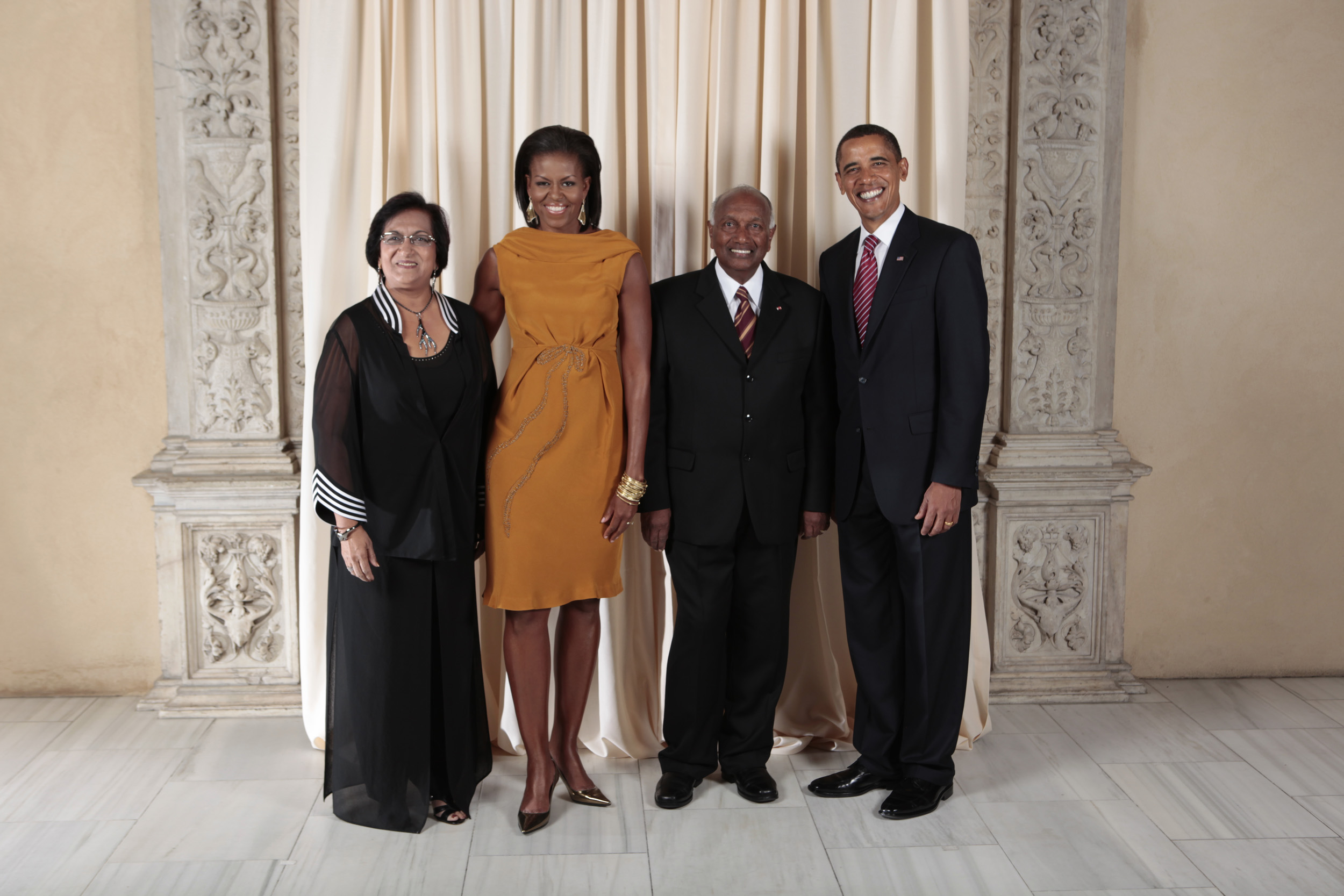 President Barack Obama and First Lady Michelle Obama pose for a photo during a reception at the Metropolitan Museum in New York with Ramdien Sardjoe, Vice President of the Republic of Suriname, and his wife, Mrs. Sardjoe-Biharie.